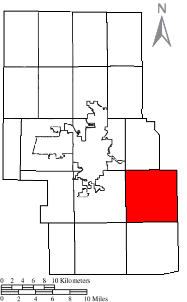 Made by the US Census and altered by myself to highlight the township